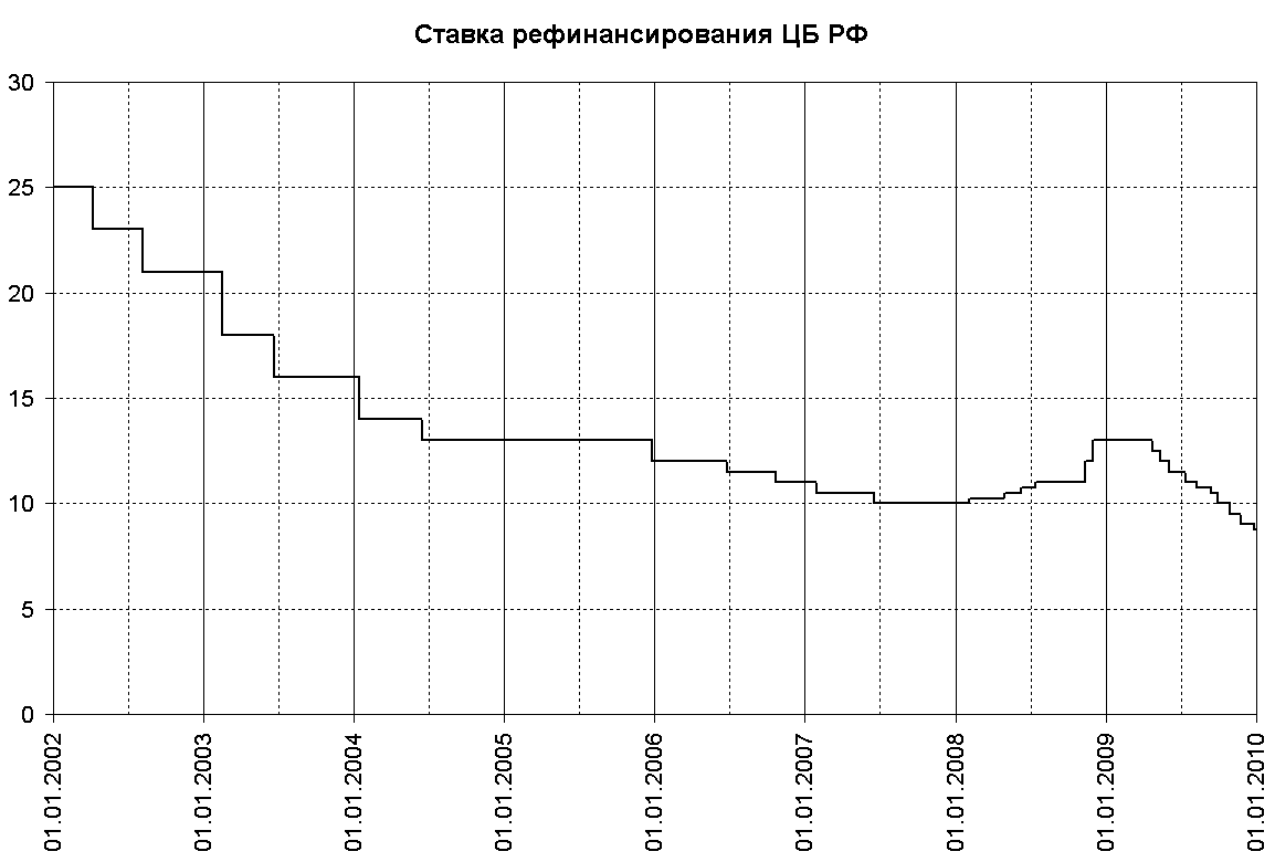 Discount rate set by Central Bank of Russia in 2002-2009